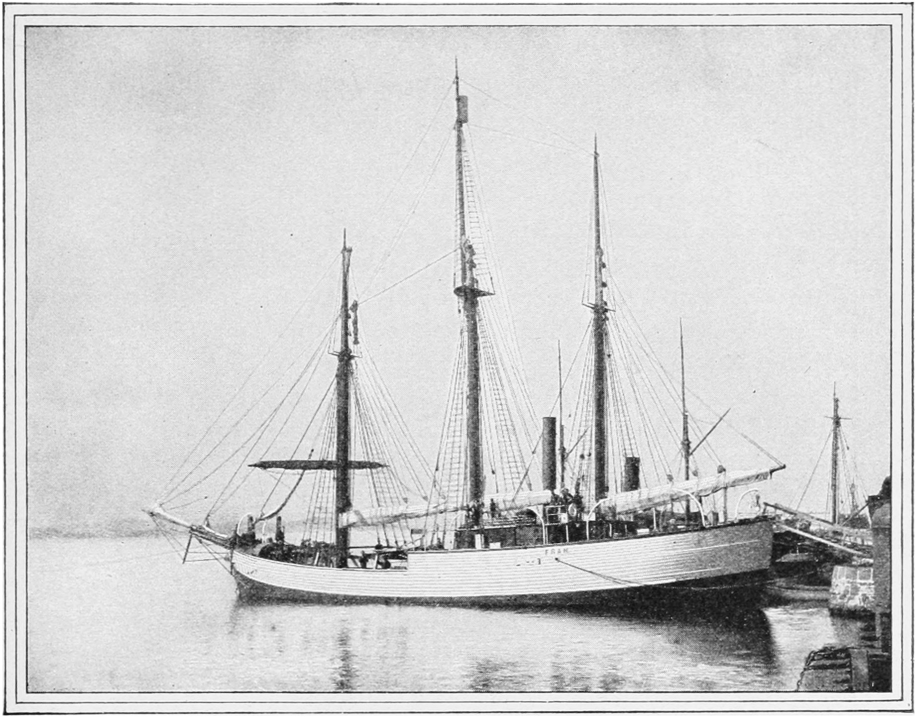 The ship named Fram